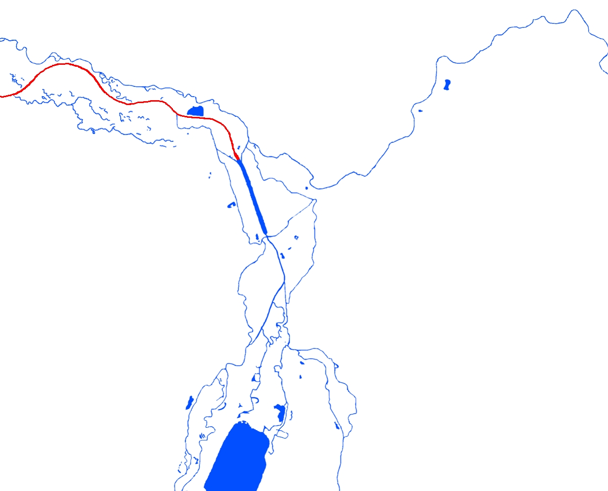 The Waterknot of Leipzig with the New Luppe (in red)